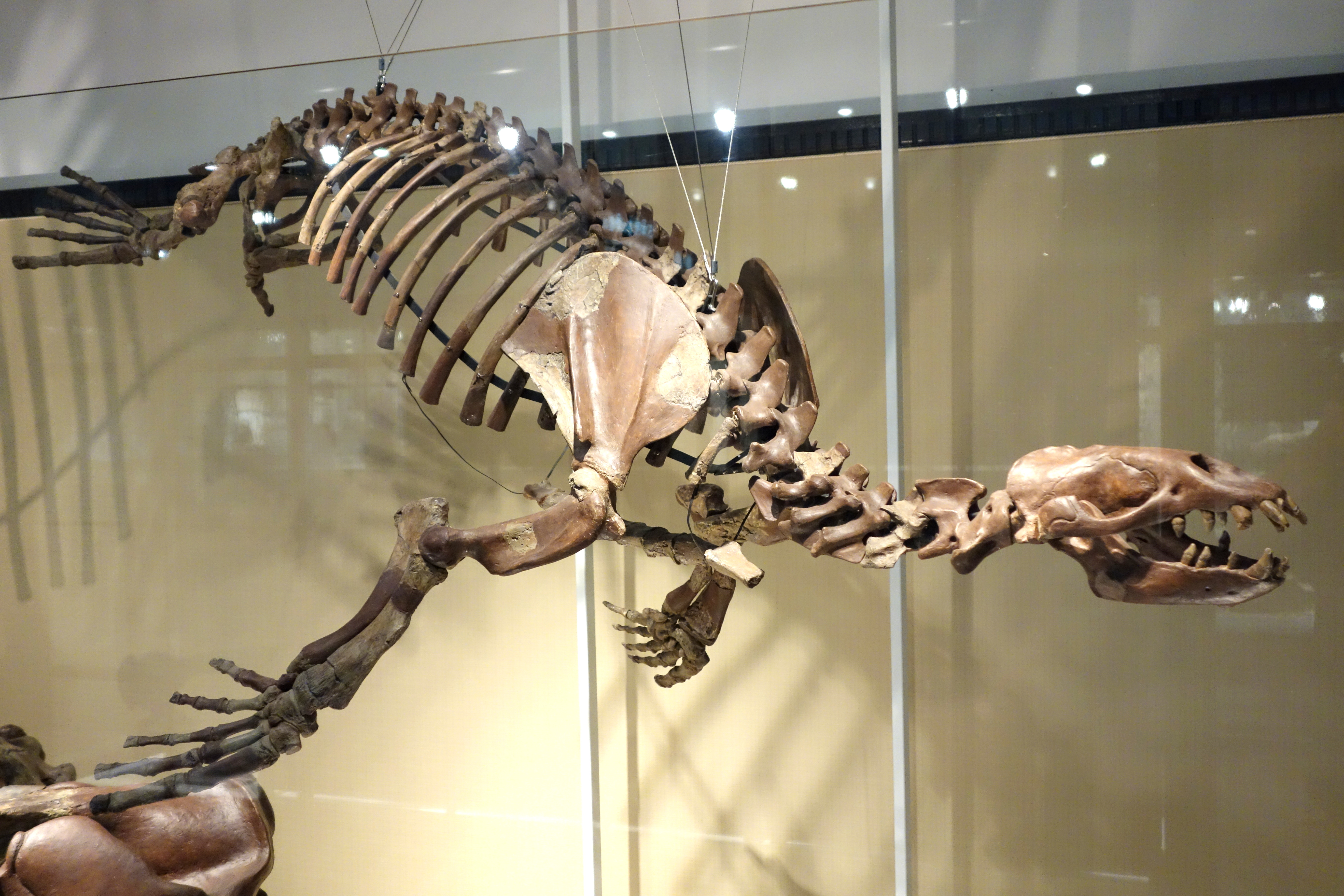 Exhibit in the National Museum of Nature and Science, Tokyo, Japan.